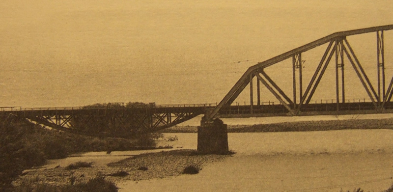 Railway bridge by Vladimir Shukhov over Ashe river near Sochi